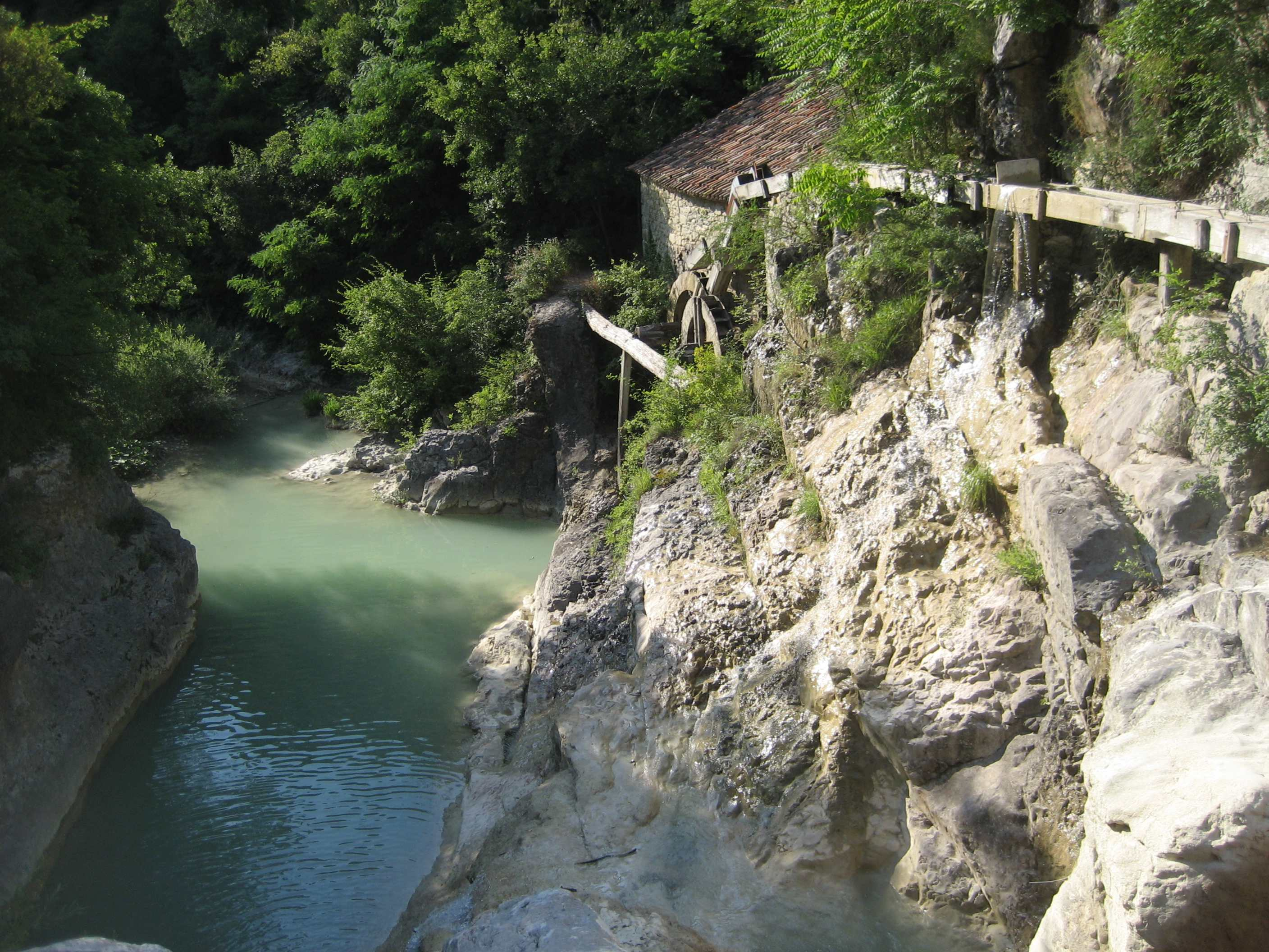 Mirna River near Kotli, Croatia